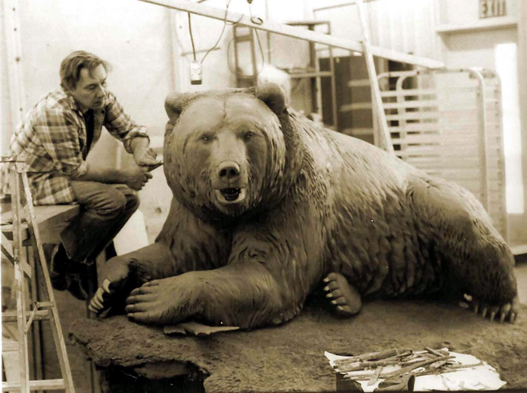 R.T. Wallen working on Windfall Fisherman bronze sculpture to commemorate Alaska's 25th year of Statehood.